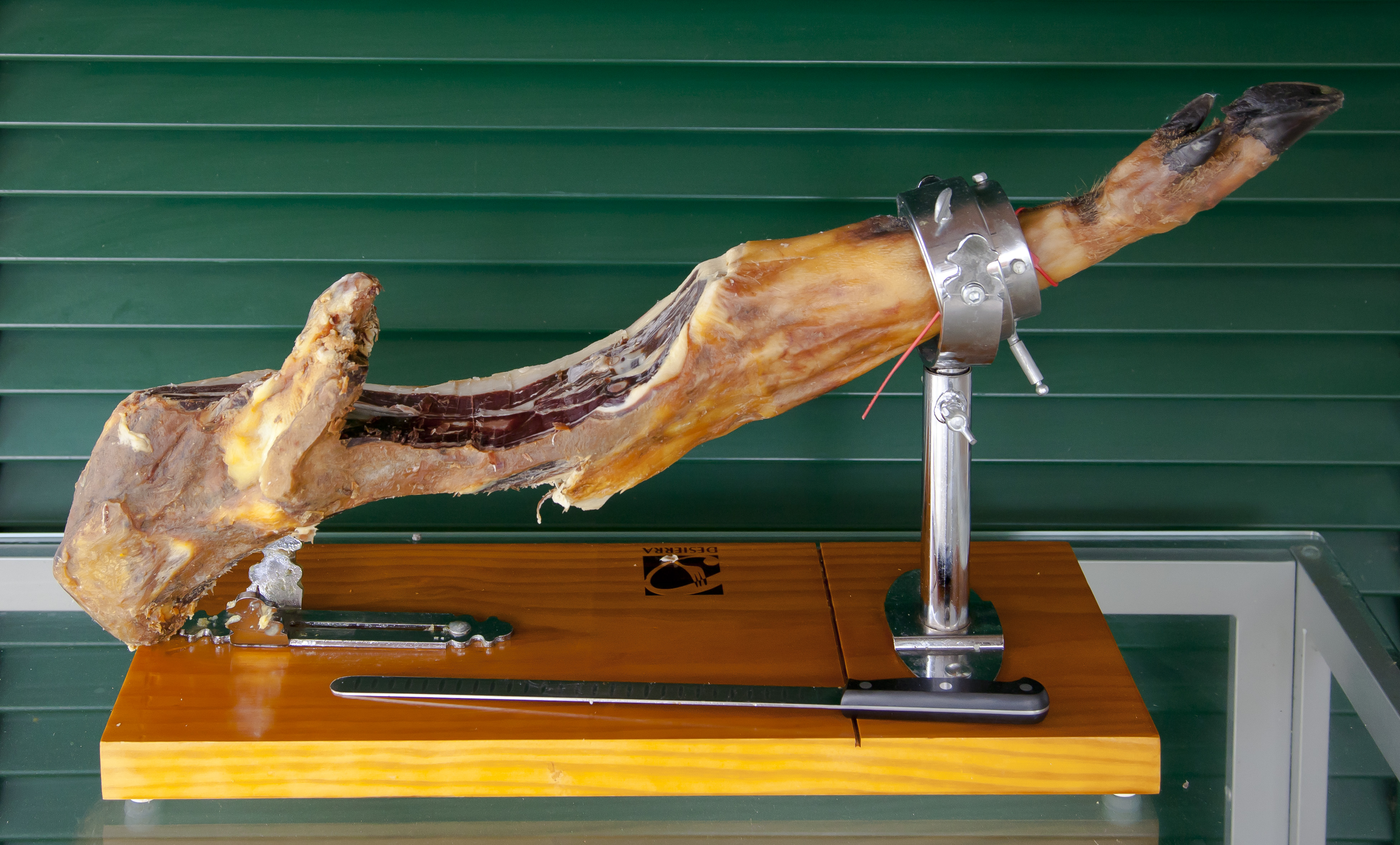 Jamón ibérico, Setubal, Portugal. Dry-cured ham from Spain made from the black iberian pig.